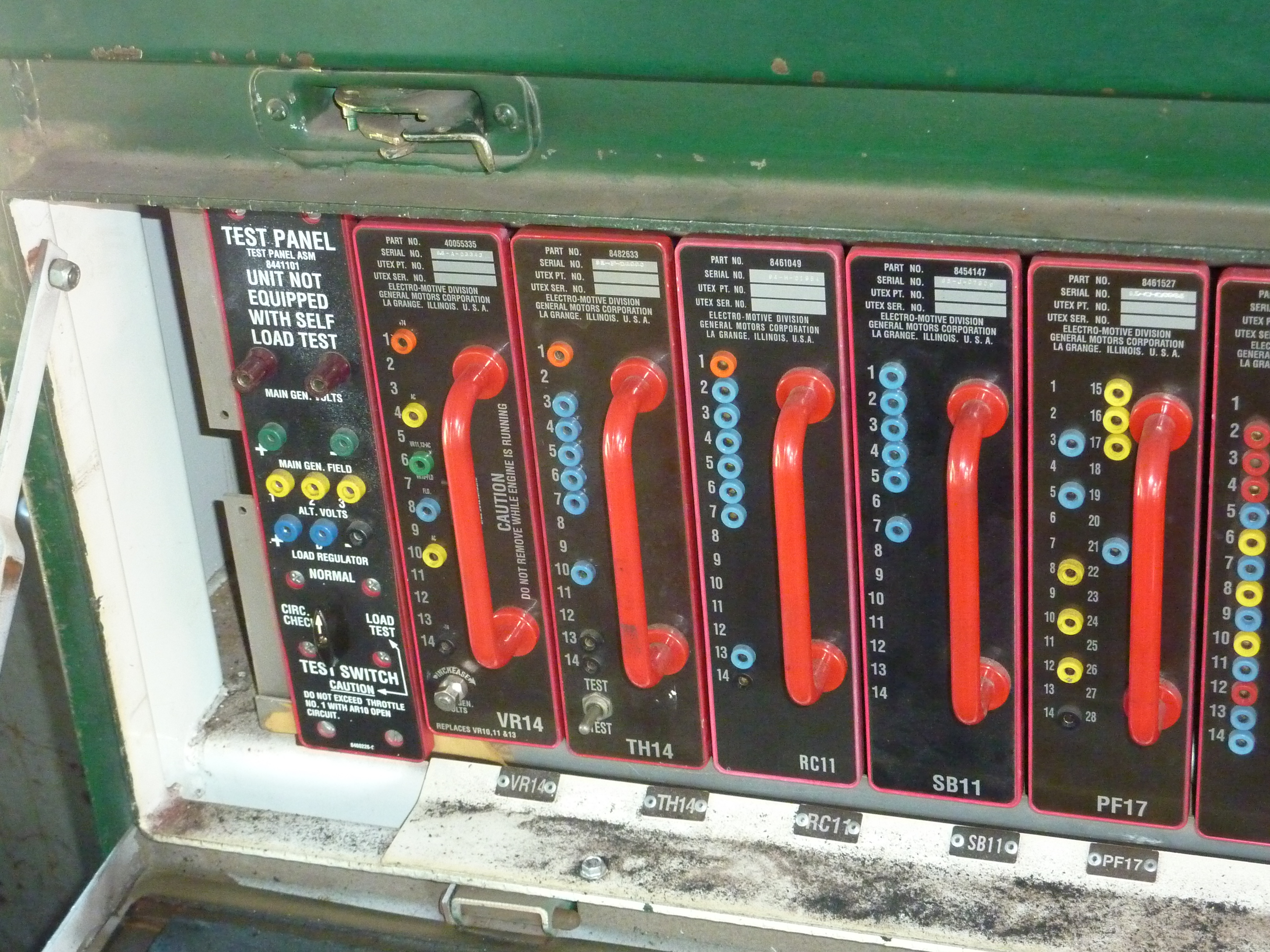 EMD Dash 2 modules from IC 6071, an SD40-2R (originally EMD 434, the prototype SD40).